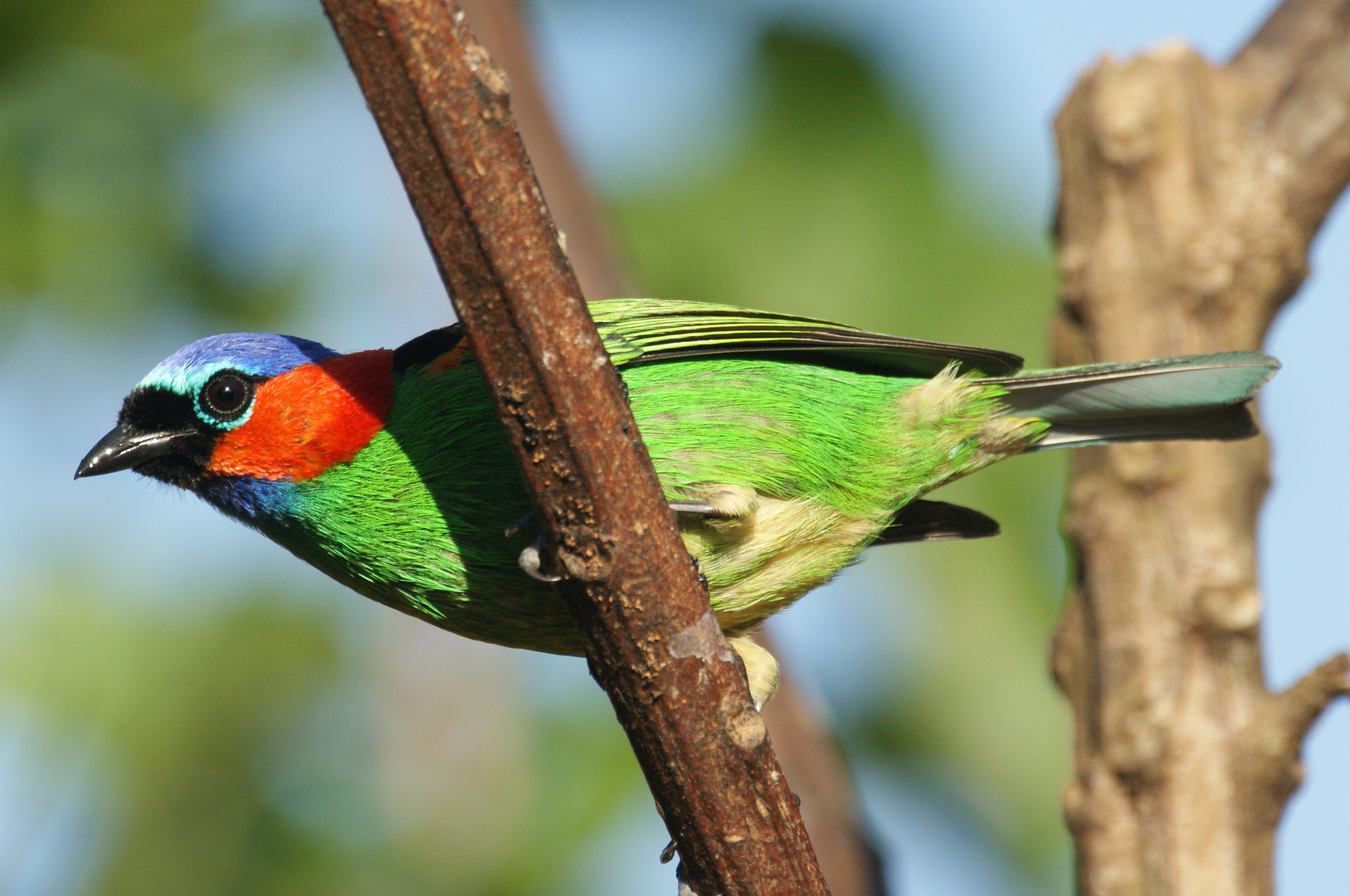 A Red-necked Tanager in Morretes, Paraná, Brazil.